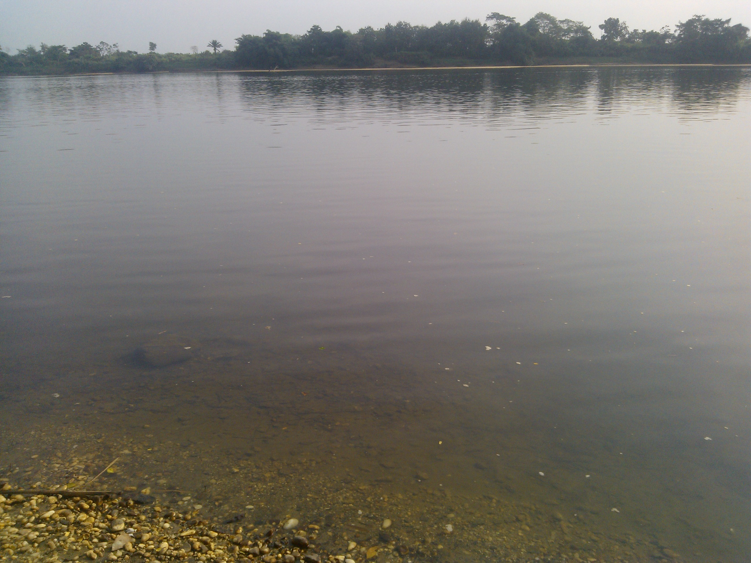 This is an image of food from Nigeria